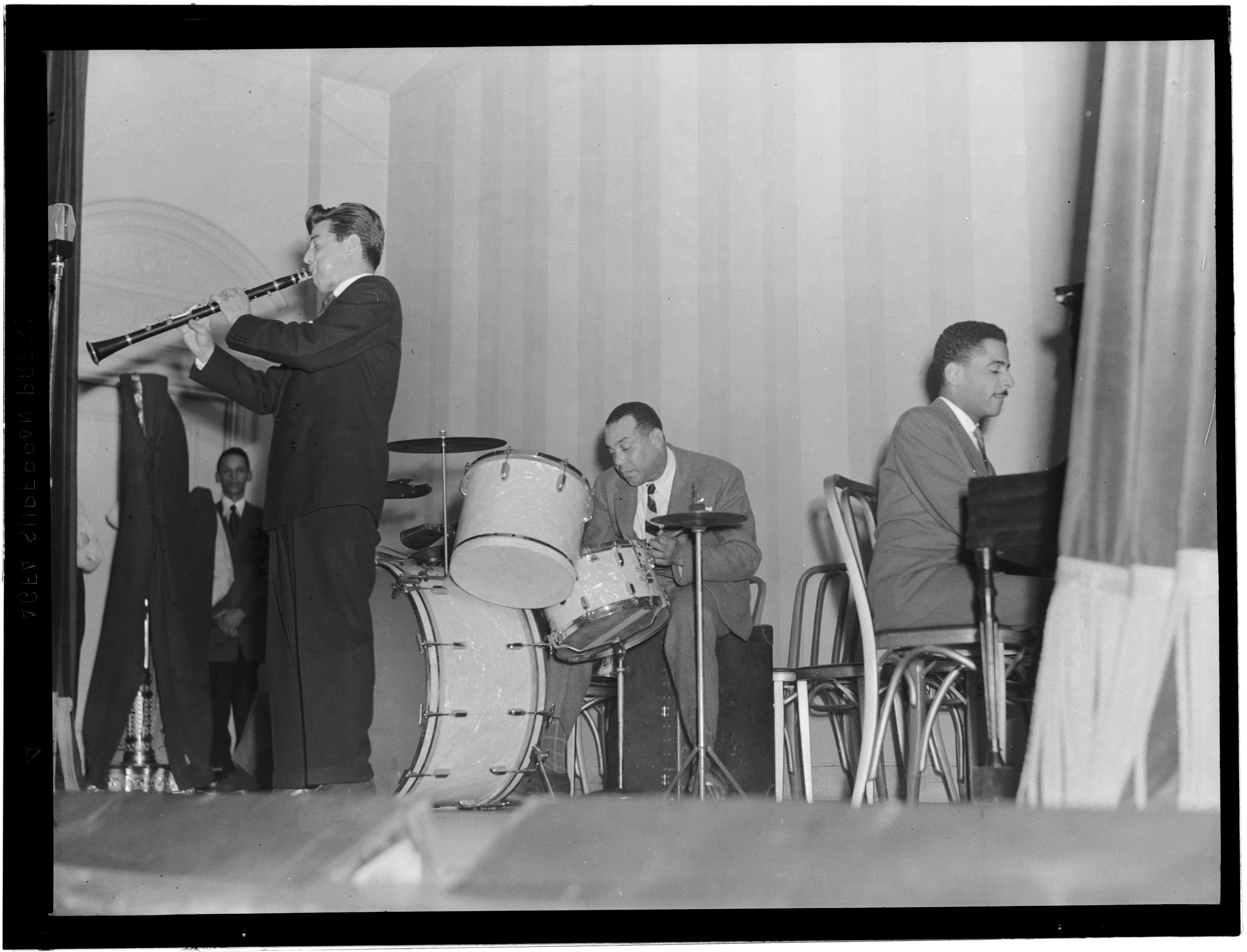 Joe Marsala, Zutty Singleton, and Teddy Wilson, National Press Club, Washington, D.C.